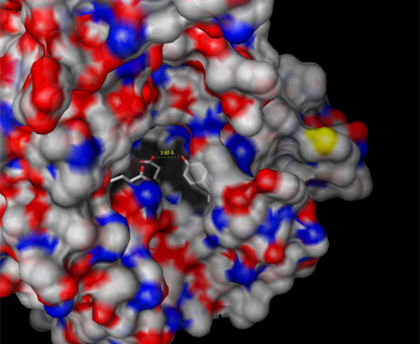 Active site pocket of Beta Glucuronidase with supporting tyrosine shown.